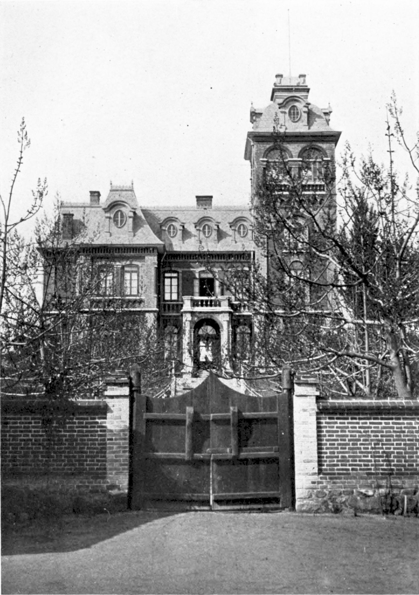 French legation to Korea, c.1900; p.255 The passing of Korea (book)